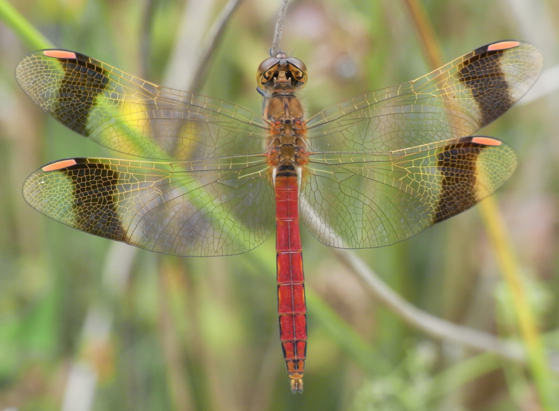 Male Banded Darter (Sympetrum pedemontanum) near Hamburg, Germany.